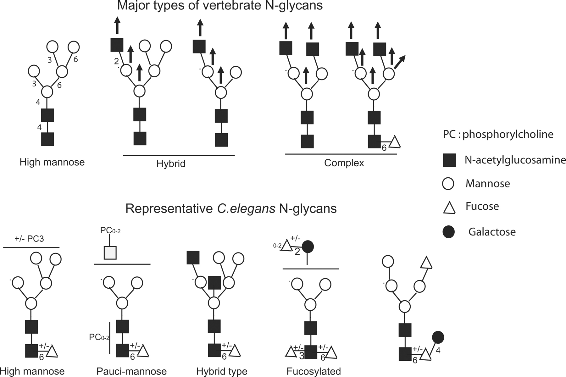 Comparative overview of the major types of vertebrate N-glycan subtypes and some representative C. elegans N-glycans. Top panel: Vertebrate diversification in the Golgi apparatus generates high-mannose, hybrid and complex N-glycan subtypes. Most cell surface and secreted N-glycans are of the complex subtype. Vertical arrows indicate locations of branch formation in diversification, not all of which occur on a single N-glycan. (Adapted from (Varki et al., 1999) Bottom panel: The main classes of C. elegans N-glycans include high-mannose (up to Man9GlcNAc2), pauci-mannosidic and hybrid type. Note that this scheme only includes some of the documented structures.